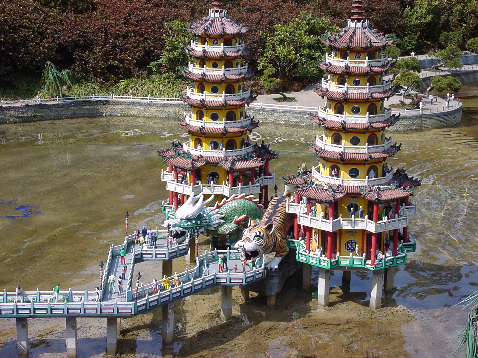 1:25 scale miniature version of the Dragon and Tiger Pagodas on Lotus Lake in Taiwan, at Tobu World Square